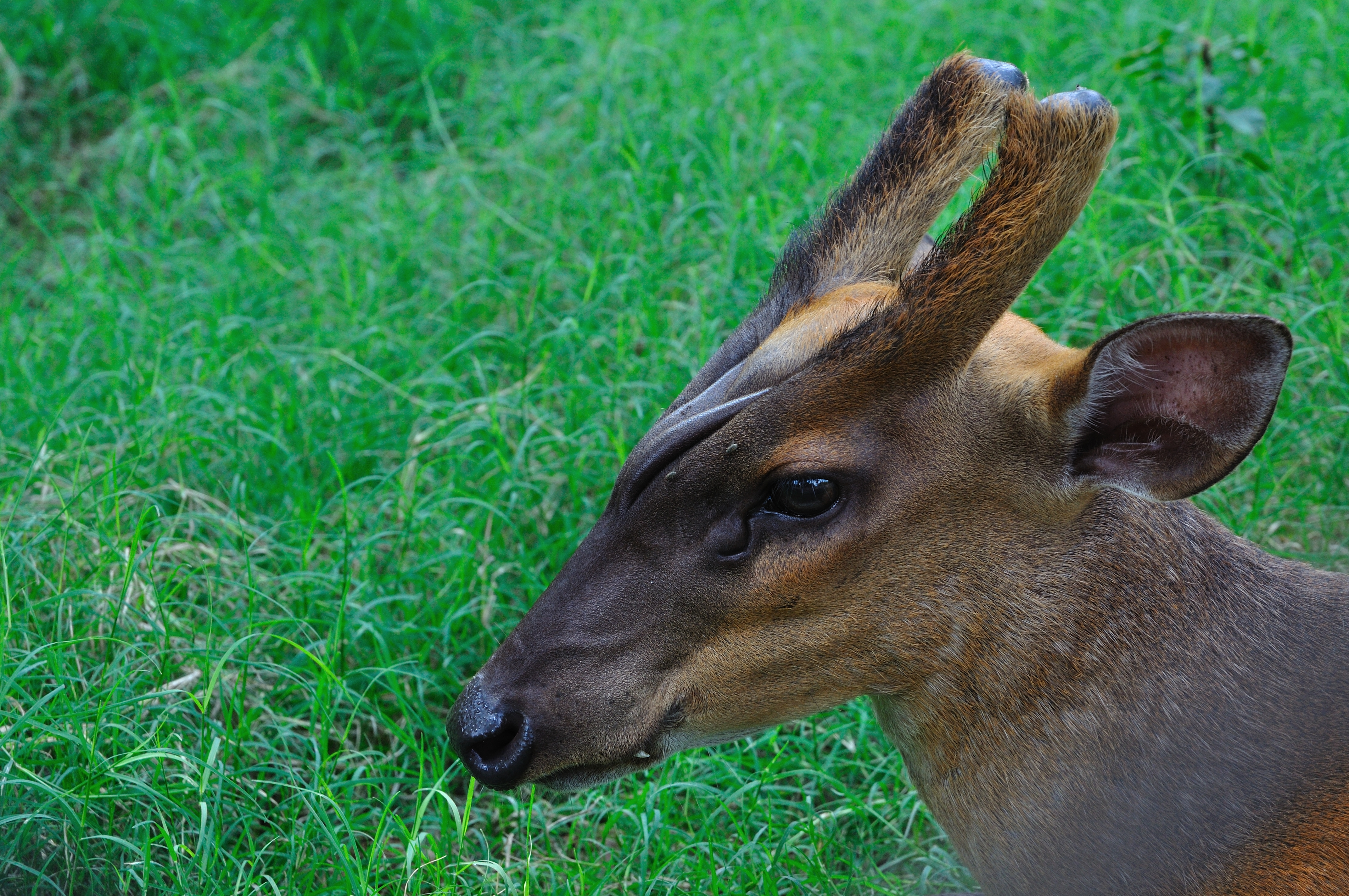 Muntjac, also known as Barking Deer, are small deer of the genus Muntiacus. Muntjac are the oldest known deer, appearing 15-35 million years ago, with remains found in Miocene deposits in France, Germany and Poland.